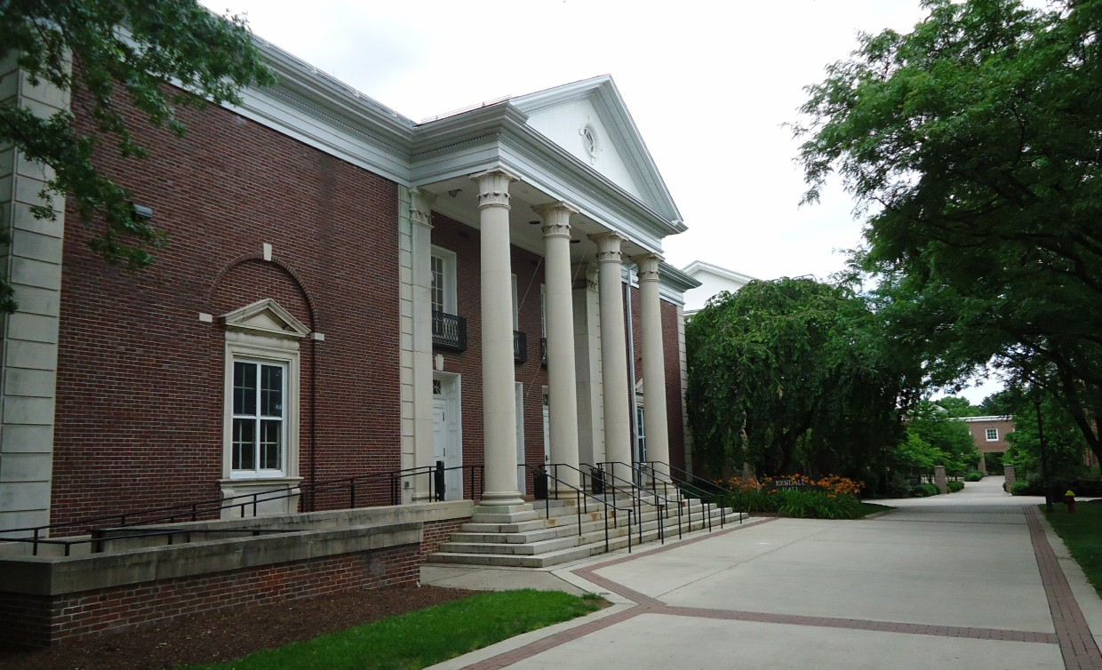 Campus view of The College of New Jersey or TCNJ, in Ewing, New Jersey.